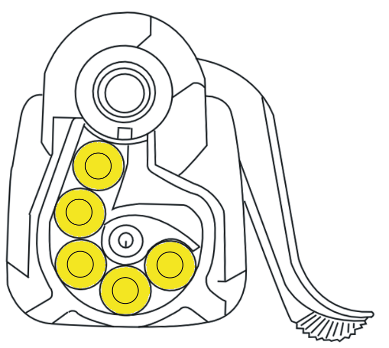 The rotary 5-round SSG 69 magazine as used in the Steyr SSG 69 bolt action rifle.